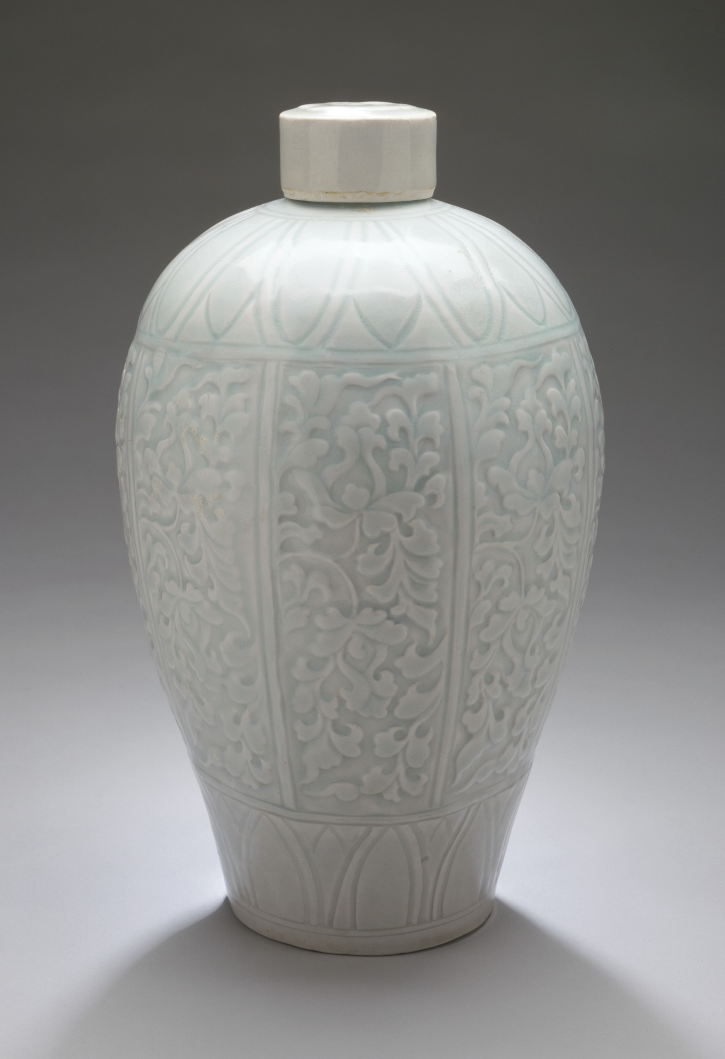 China, Jiangxi Province, Jingdezhen, Southern Song dynasty, 1127-1279 Descriptive: Qingbai ware Furnishings; Accessories Qingbai ware, wheel-thrown porcelain with carved decoration and pale blue glaze Lid: 1 5/8 x 2 1/4 in. (4.12 x 5.71 cm); Vase: 10 1/2 x 6 1/2 in. (26.67 x 16.51 cm); Overall: 11 1/4 in. (28.575 cm) Gift of Jo Ann and Julian Ganz, Jr., in memory of Alice and Joe M. Schaaf (AC1999.38.6.1-.2) Chinese Art